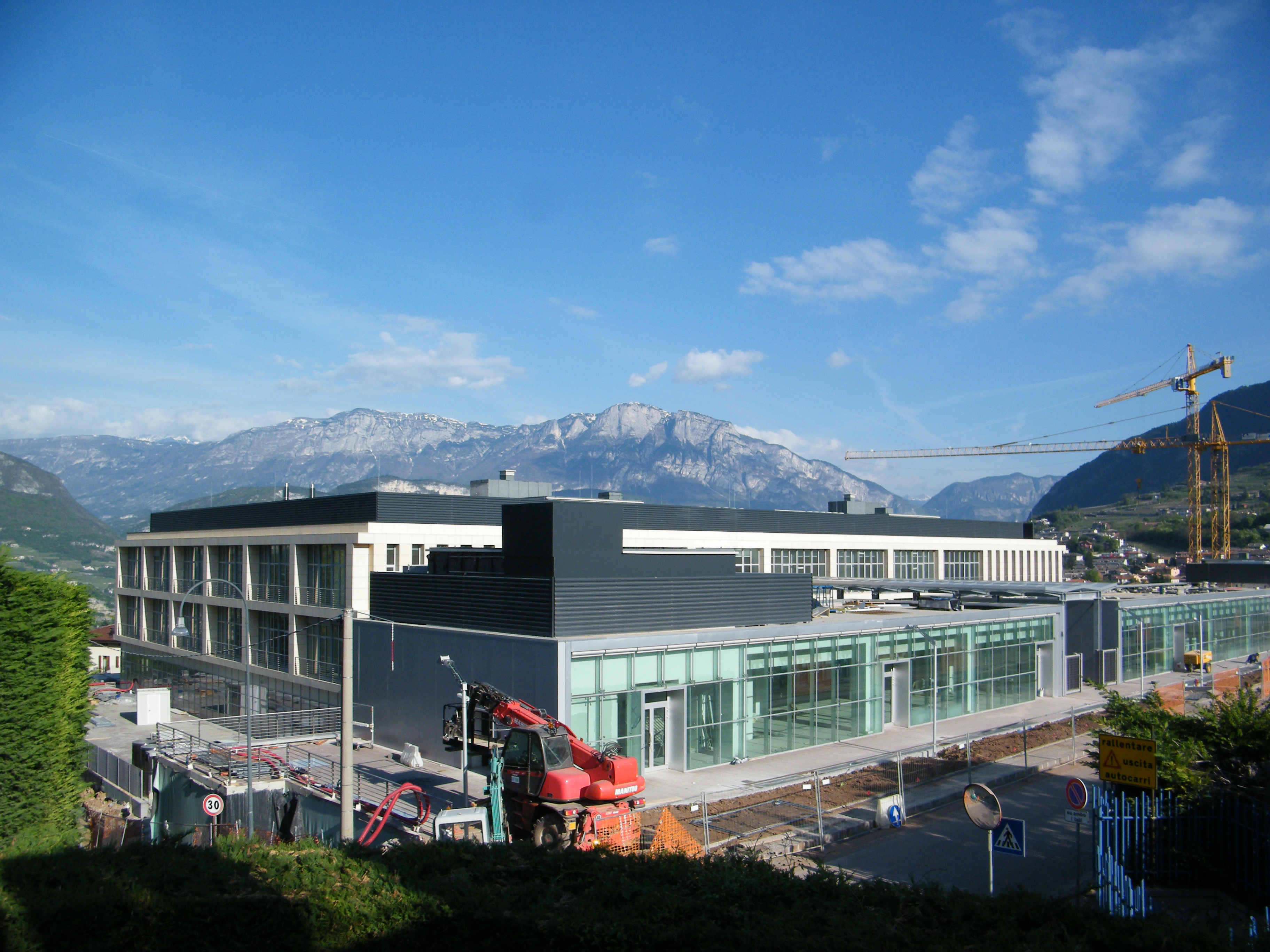 New faculty of Engineering and Science building